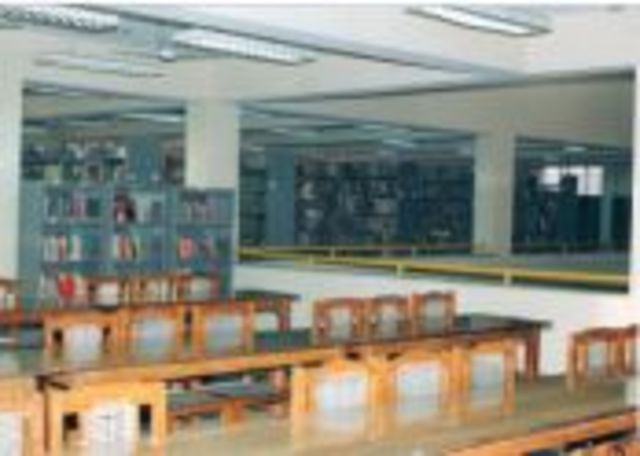 BRAC Library